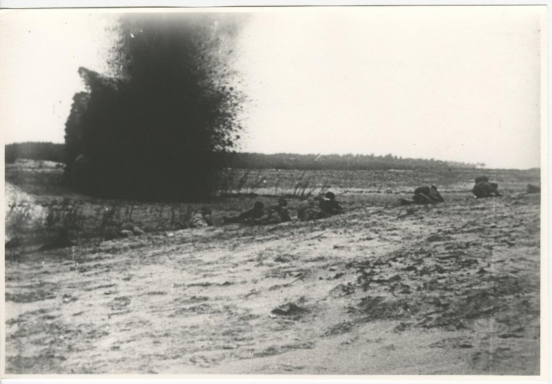 Attack of Red Army troops on Kazan during the Kazan Operation.